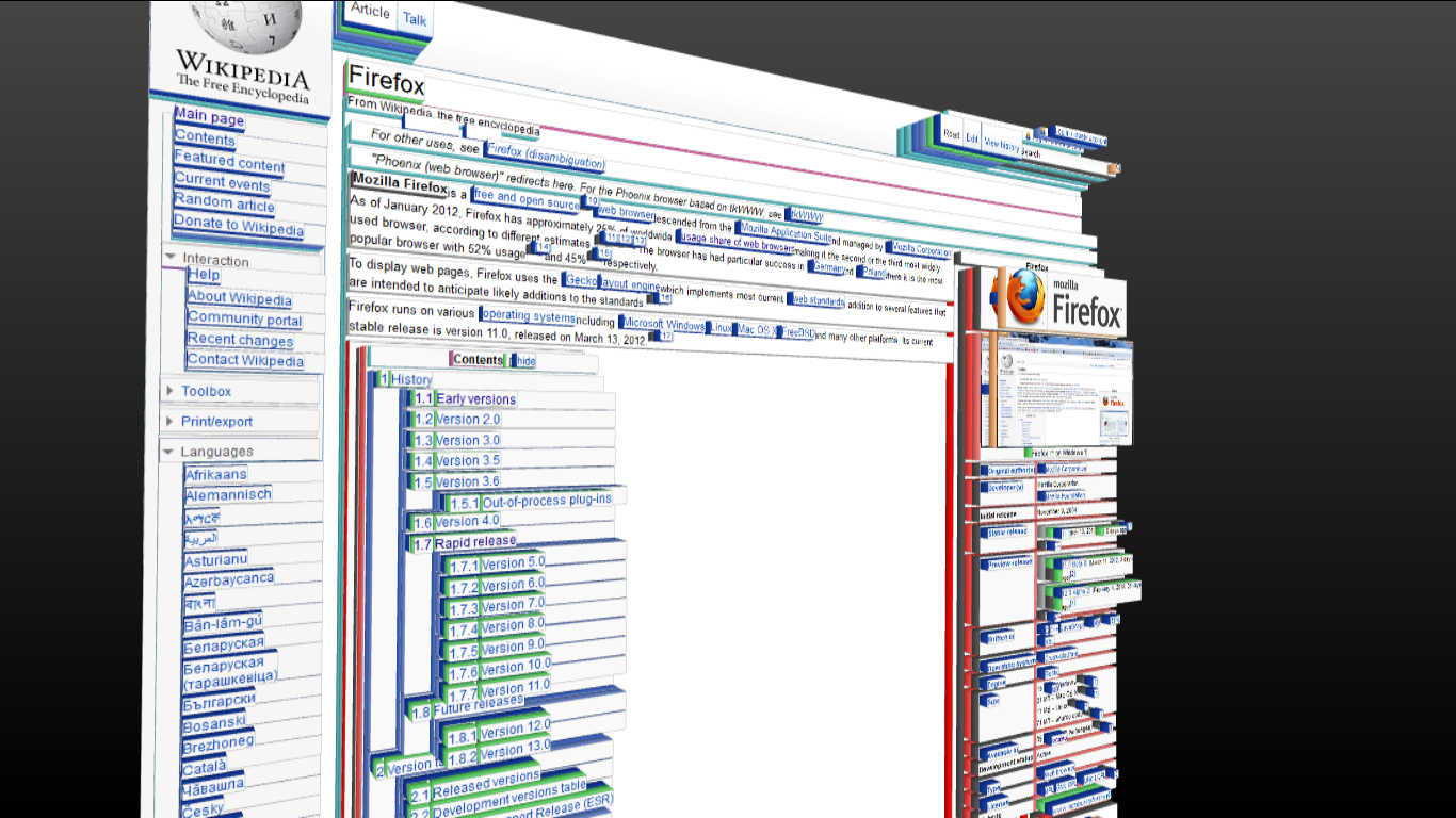 This is Firefox 11 using 3D tilt to analyze the contents of the Firefox Wikipedia page.